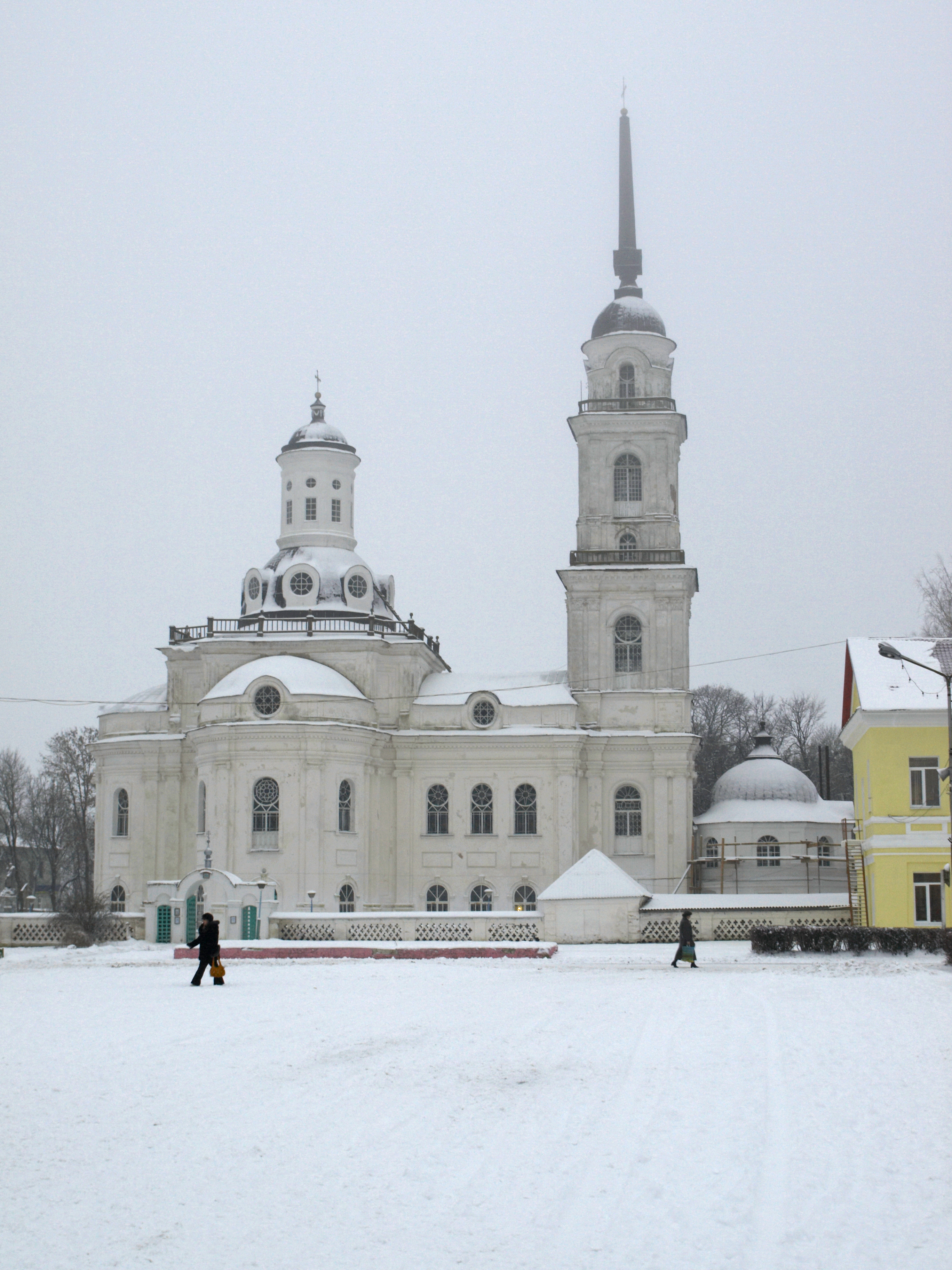 Resurrection Cathedral (Voskresensky Sobor), Pochep, Russia, around 1770